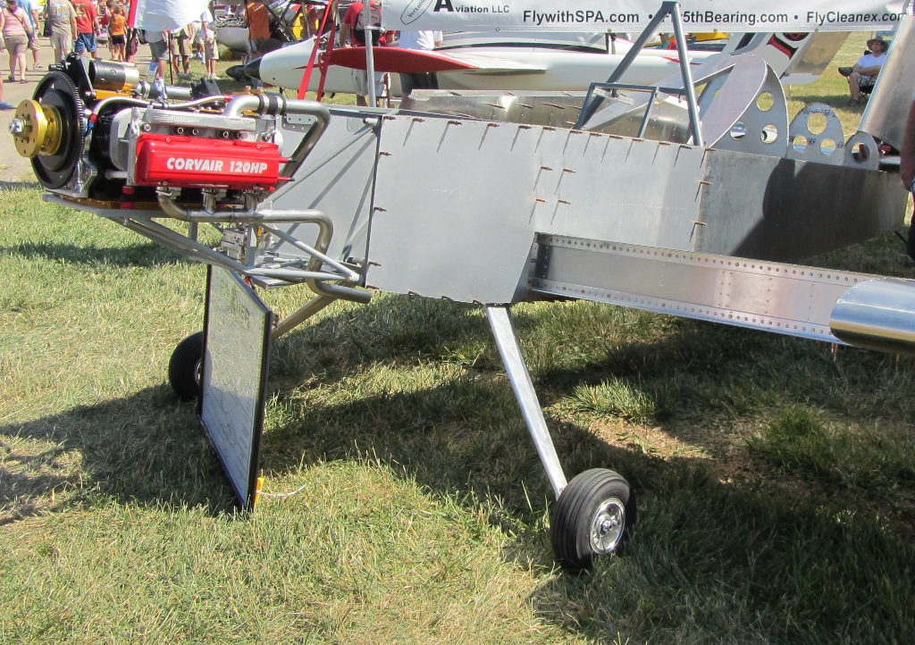 PantherLSA